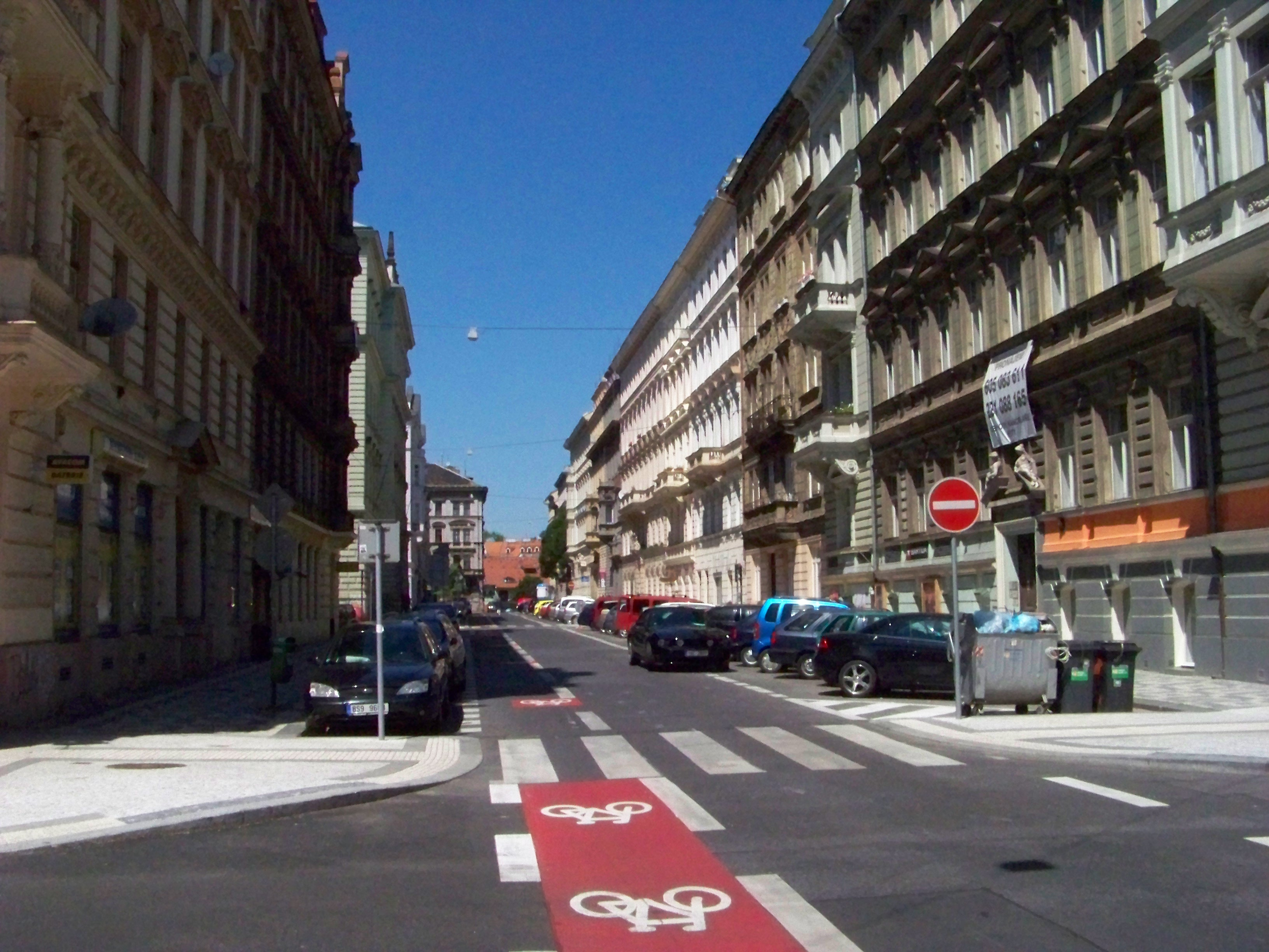 Prague-Malá Strana, the Czech Republic. Zborovská street. - OpenStreetMap(Info)